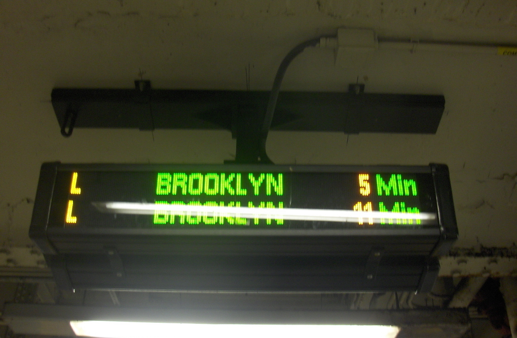 New train arrival sign on the L. Taken at 14th Street-Union Square station on the L platform